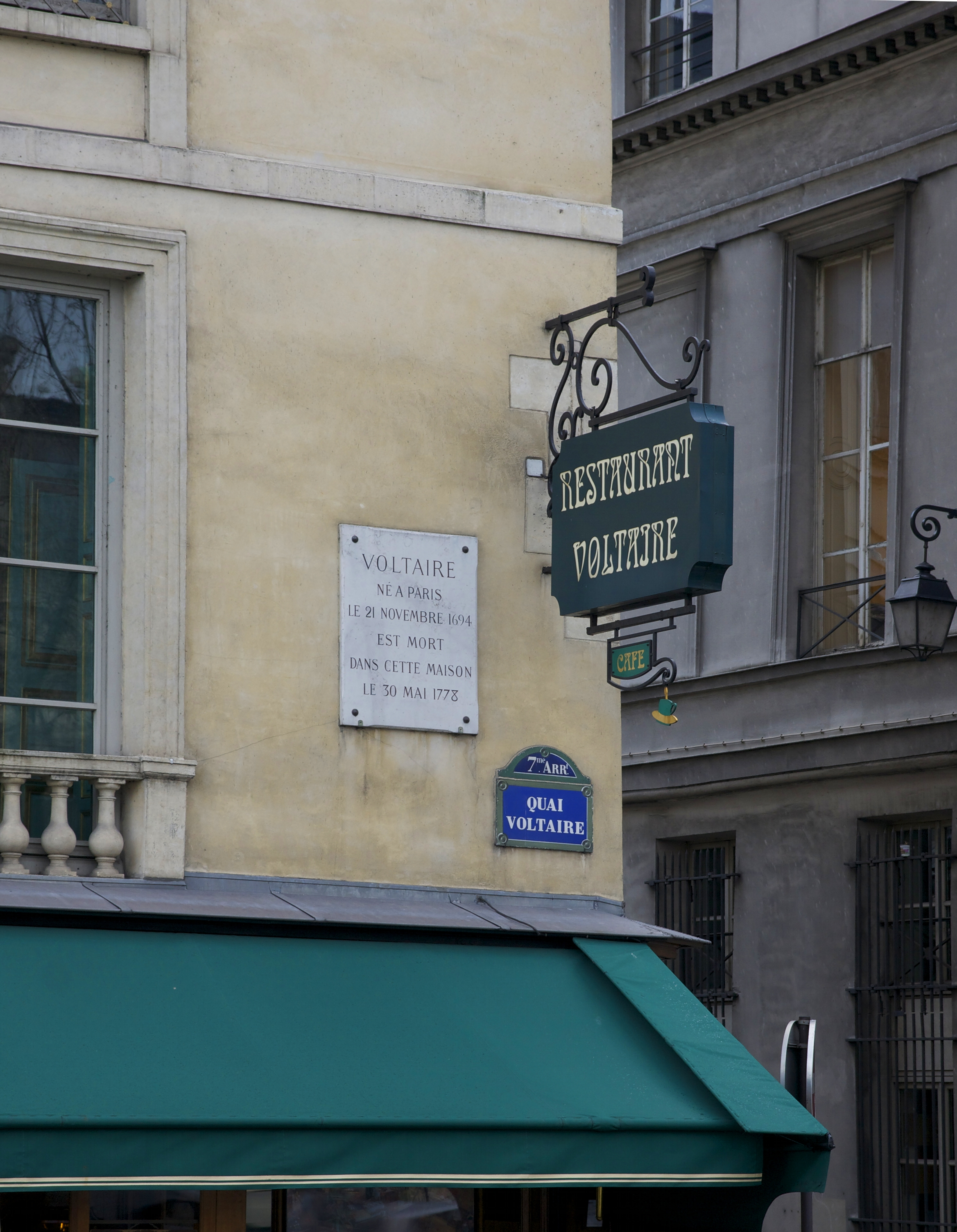 Triple tribute to Voltaire in Paris. VOLTAIRE NE’ A PARIS LE 21 NOVEMBRE 1694 EST MORT DANS CETTE MAISON LE 30 MAI 1778